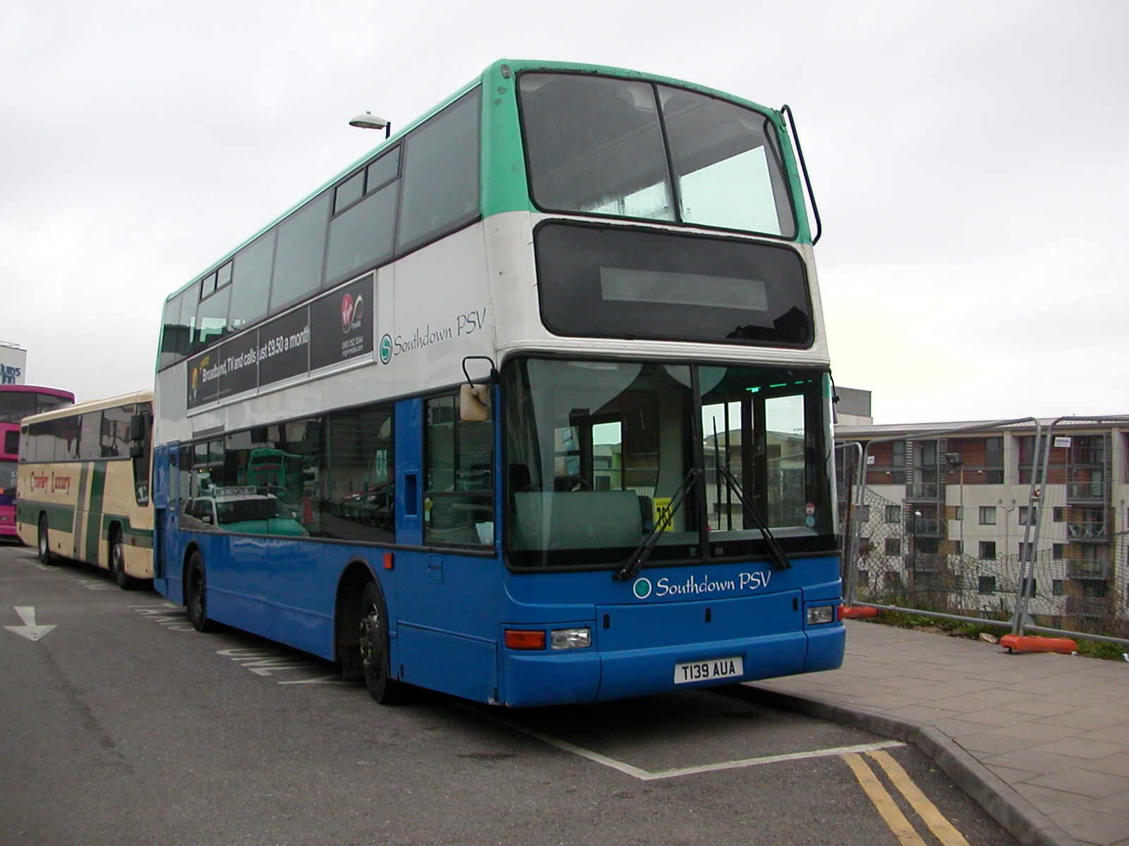 Taken on 15th January 2011.